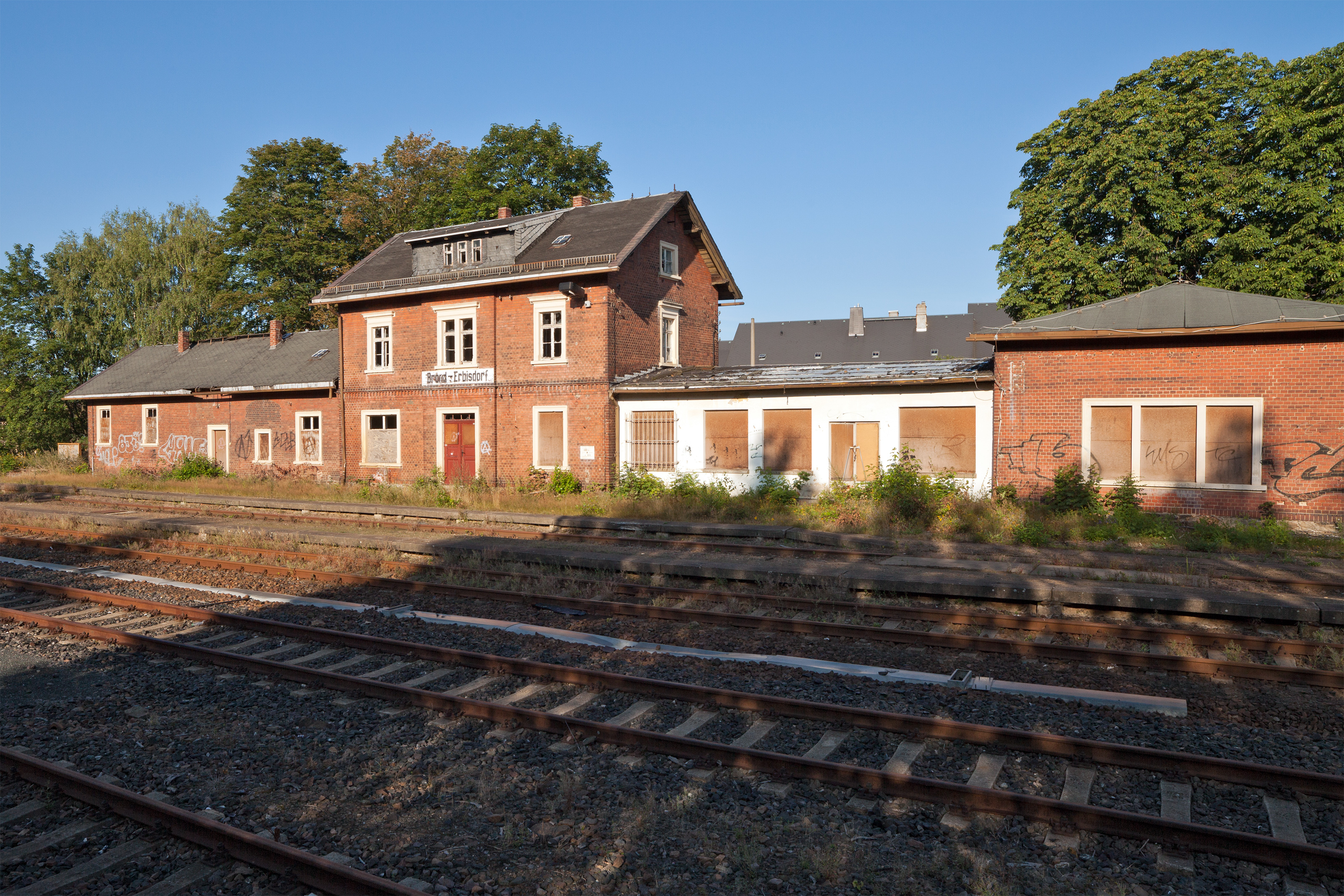 Brand-Erbisdorf, railway station